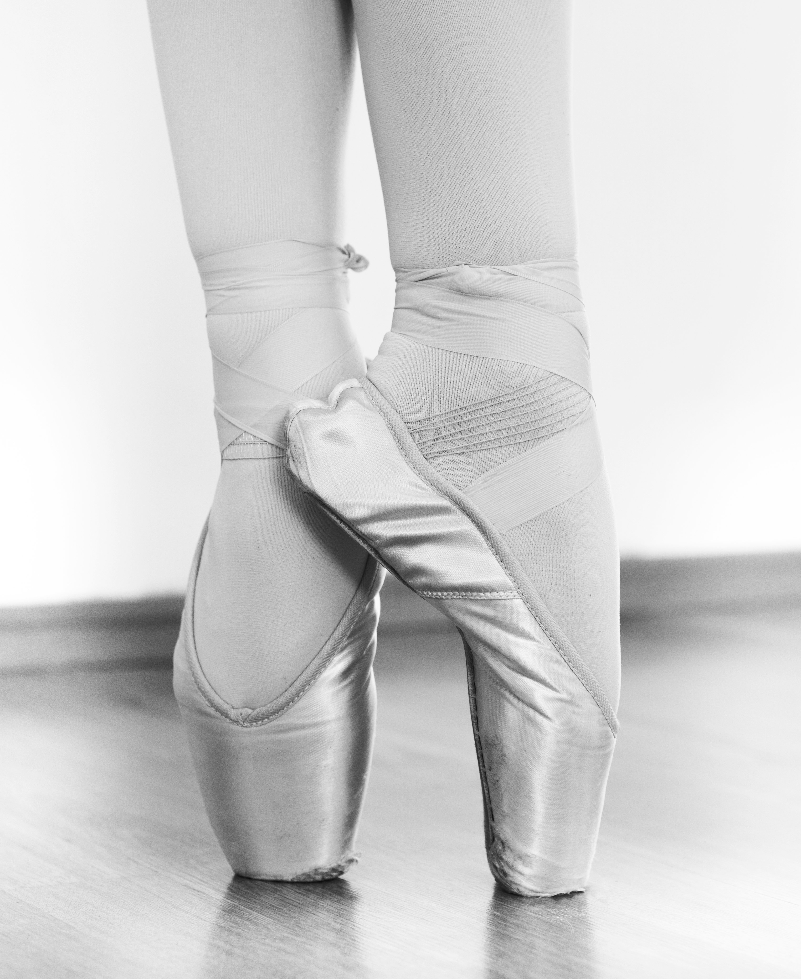 Pointe ballet shoes in Russian ballet school in Ljubljana, Slovenia.